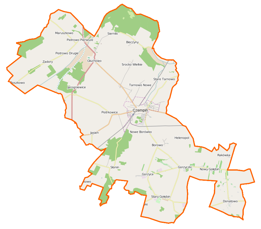 Map of Gmina Czempiń, Poland This map of Czempiń (gmina) was created from OpenStreetMap project data, collected by the community. This map may be incomplete, and may contain errors. Don't rely solely on it for navigation. Border coordinates52.218216.6058←↕→16.896052.0614